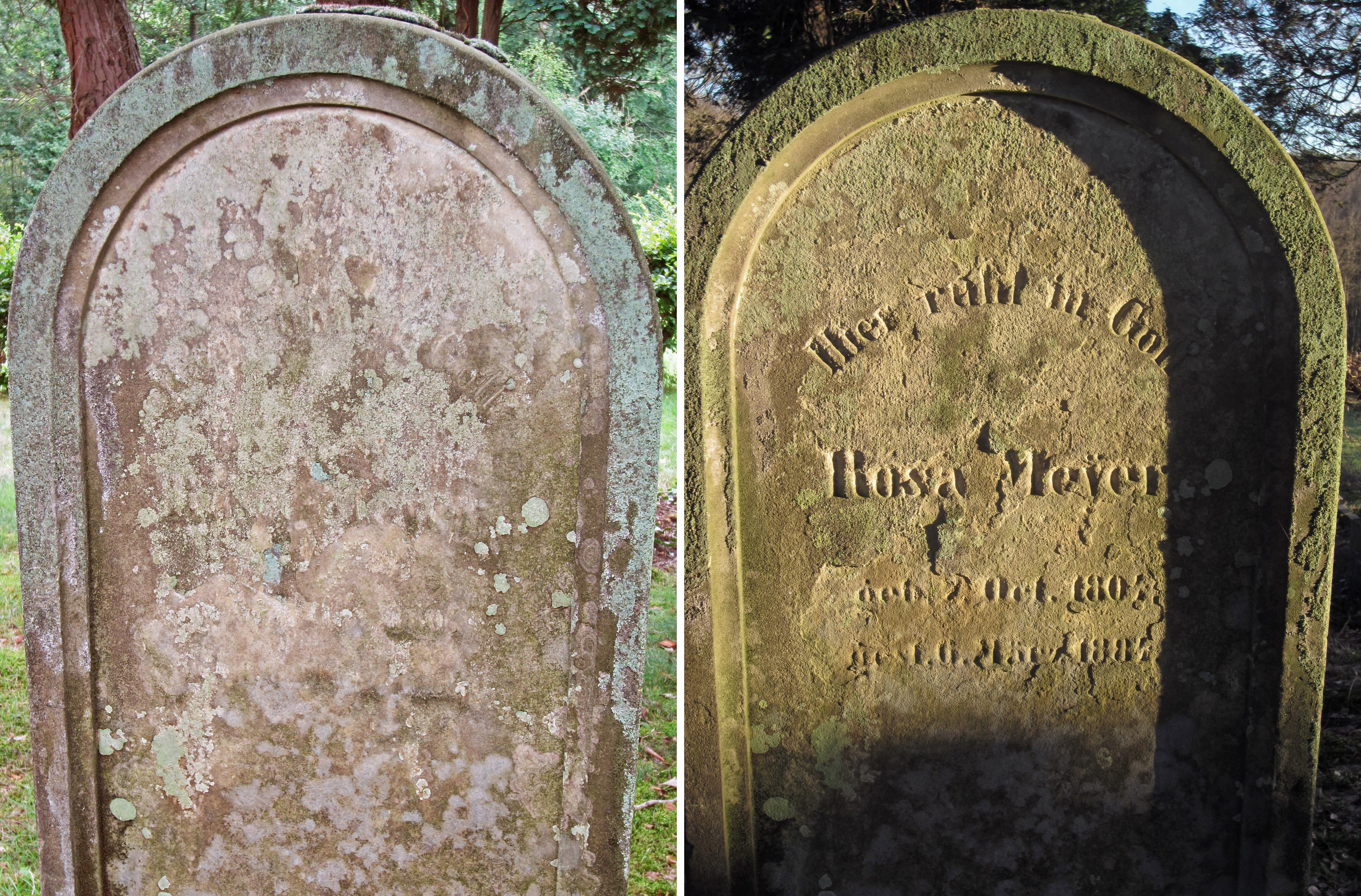 Jewish cemetery Schwelm, headstone Rosa Meyer